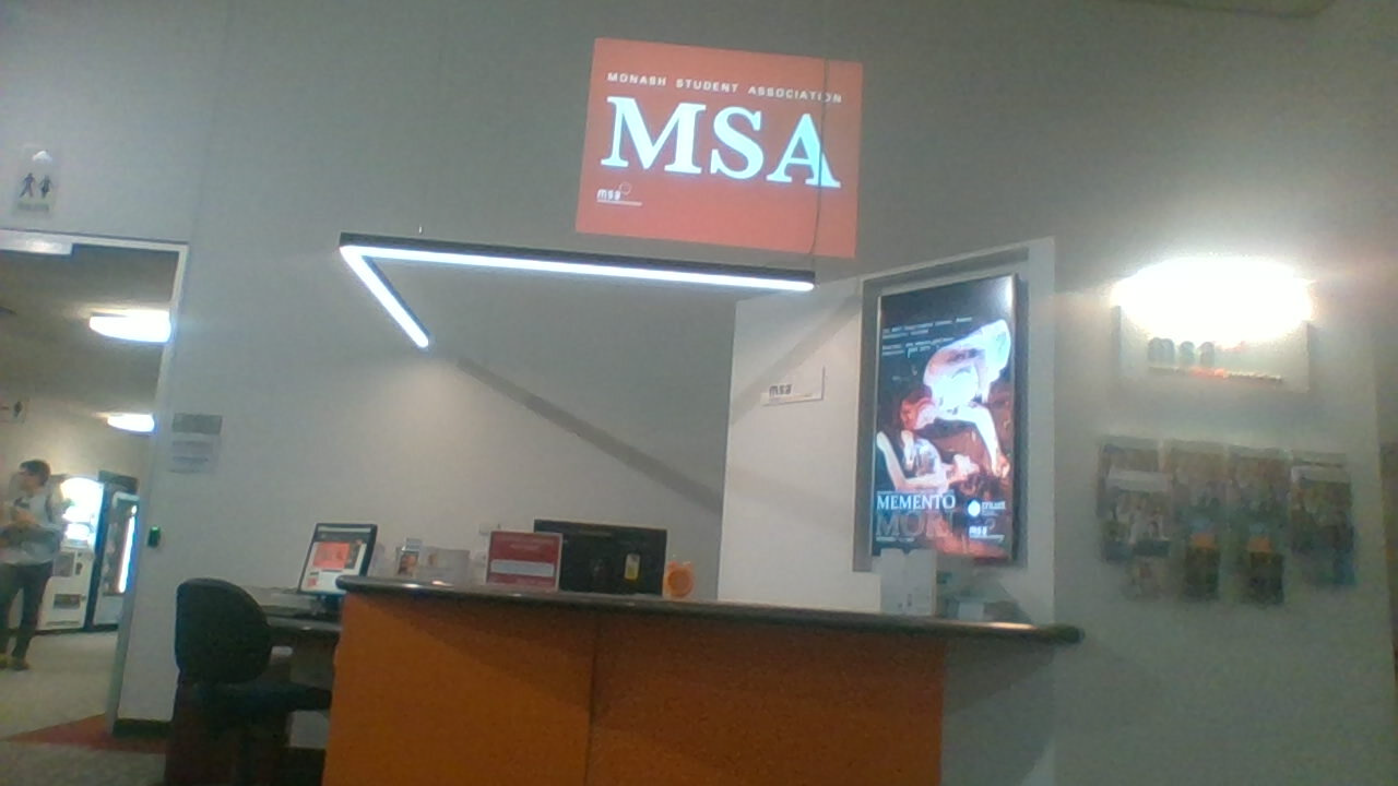 Reception of the Monash Student Association, at the Campus Centre of Monash University Clayton.